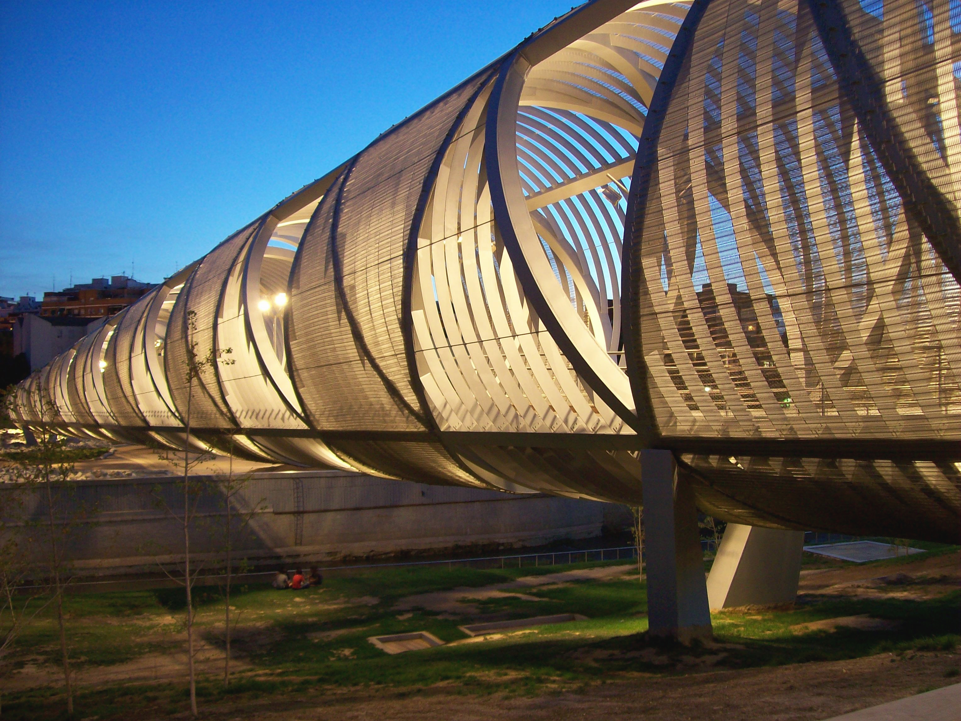 Night view of Arganzuela Bridge in Madrid (Spain).